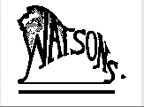 W Watson & Sons logo